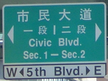 Road name sign of Section 1 and 2, Civic Boulevard, Taipei City